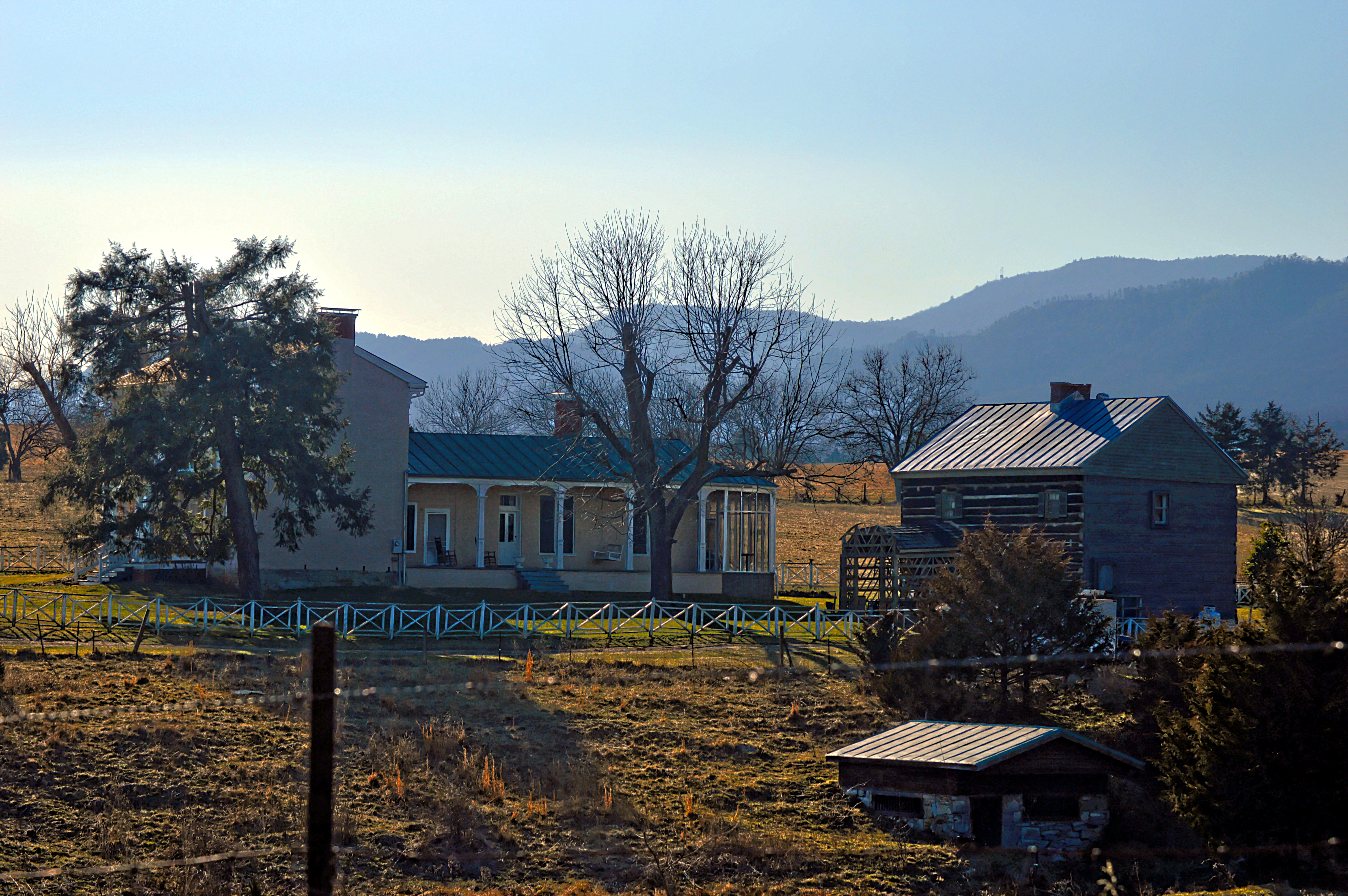 Main house (left) and older log house (right) at the Harnsberger Farm, located off Rinacas Corner Road just southwest of Shenandoah in Rockingham County, Virginia, United States. The farmstead is listed on the National Register of Historic Places.